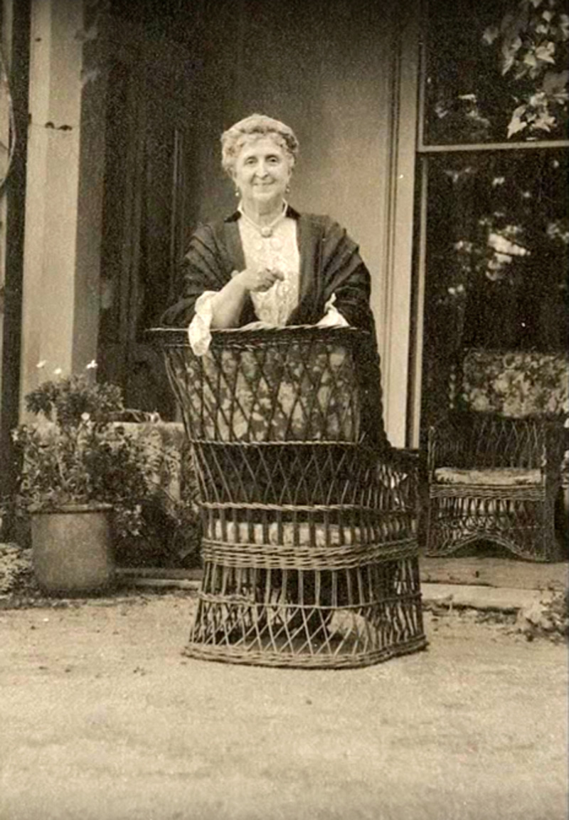 The back verandah at Ashfield Torquay circa 1915